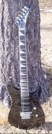 1998Shannon Soloist